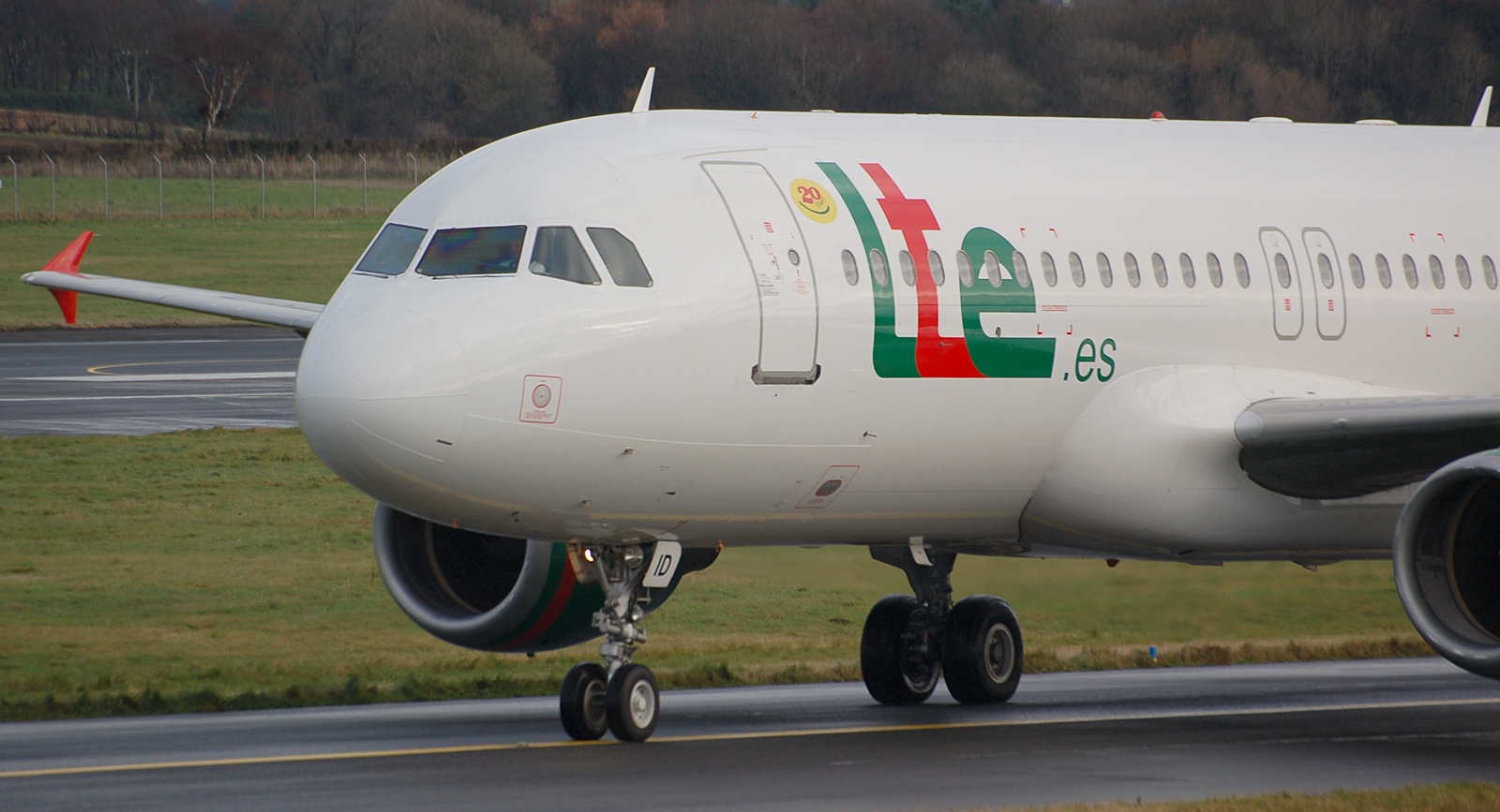 LTE International Airways Airbus A320-211 EGPK 18/11/07